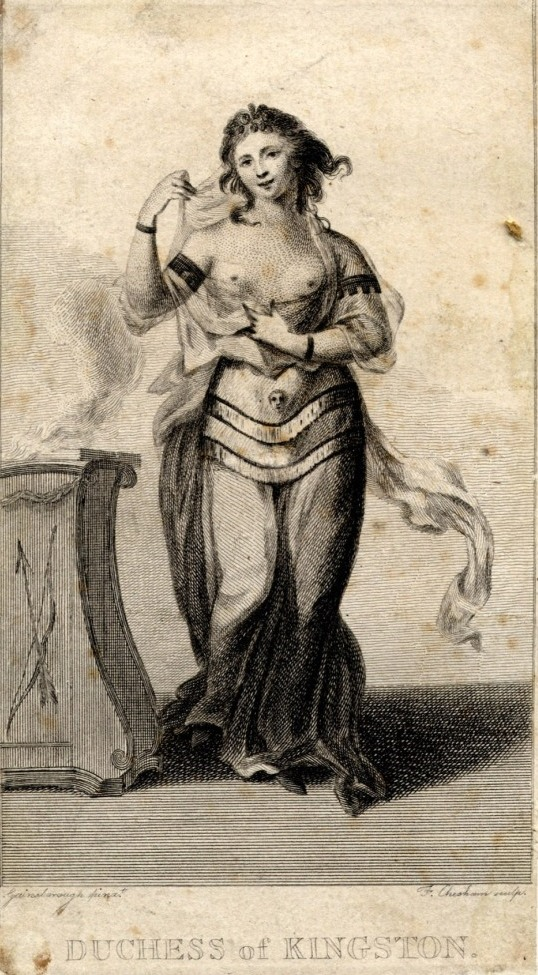 Elizabeth Chudleigh posing as Iphigenia